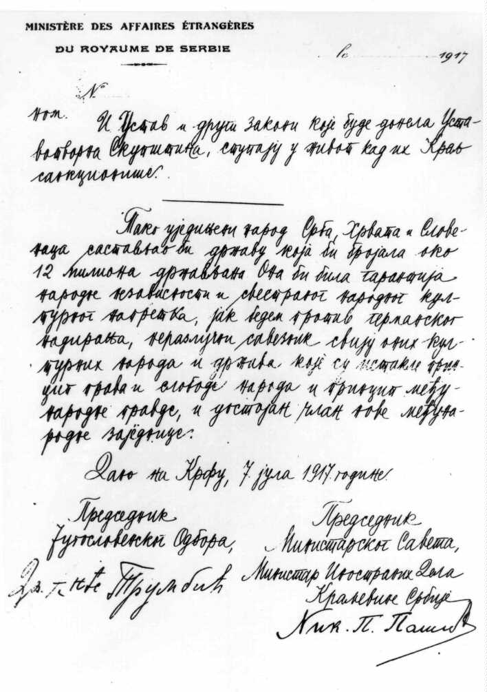 Corfu Declaration (Page 2)